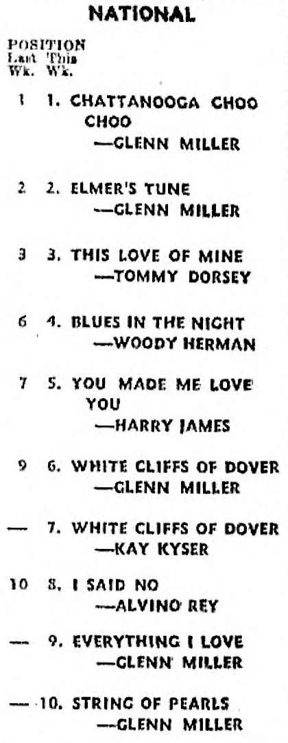 Billboard top ten singles, Jan 24, 1942